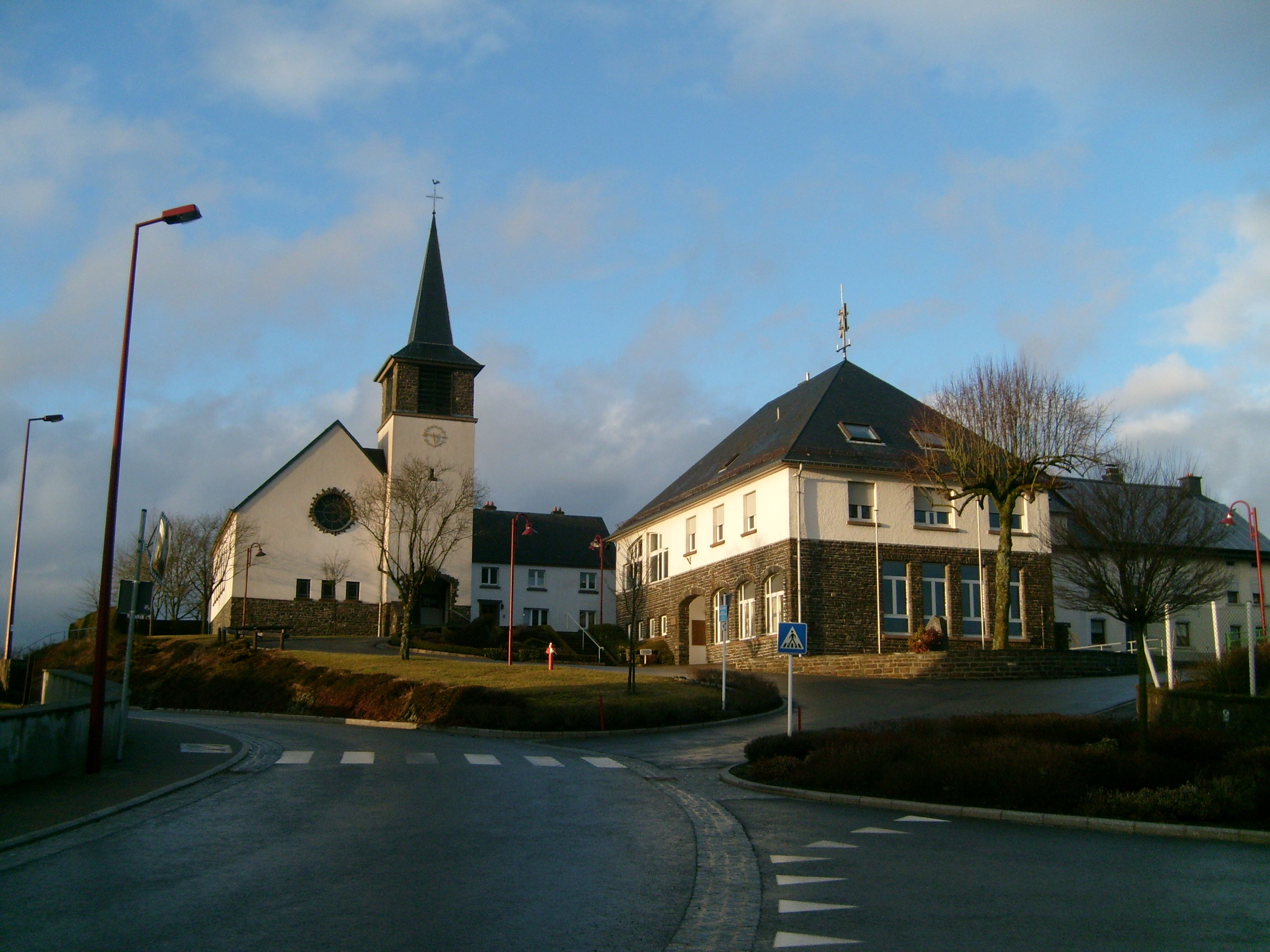 Church and town hall of Consthum, Luxembourg.